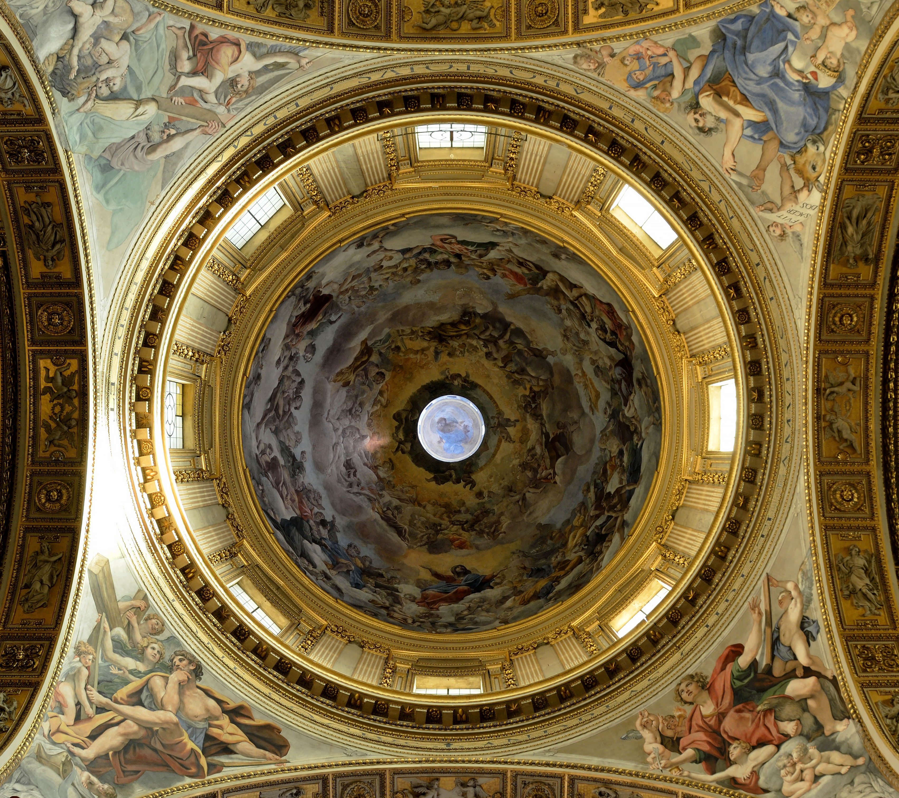 Sant'Andrea della Valle (Rome) - Dome